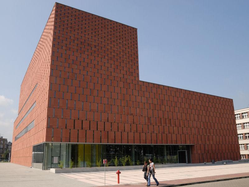 Centrum Informacji Naukowej i Biblioteka Akademicka (CINiBA)